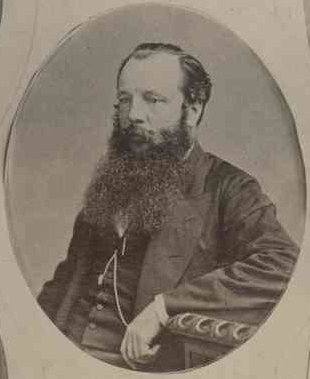 Sir Edwin Thomas Smith 1830-1919 Portrait of Edwin T. Smith, member for East Torrens. This is one of 36 portraits of members of the South Australian House of Assembly, 1872-1875, in a composite compiled in 1872